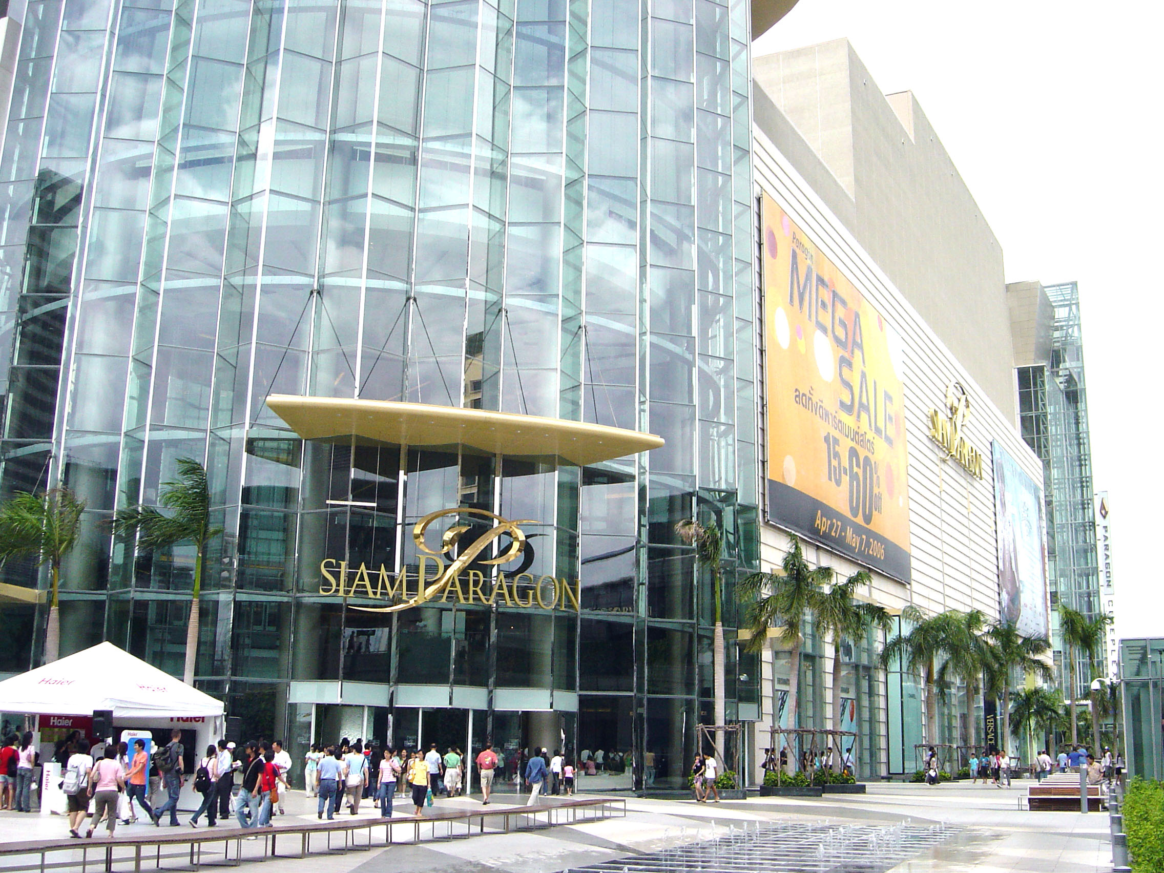 Outside view 2 of the Siam Paragon Shopping Centers in Bangkok, Thailand - Außenansicht 2 des Siam Paragon Einkaufszentrums in Bangkok, Thailand